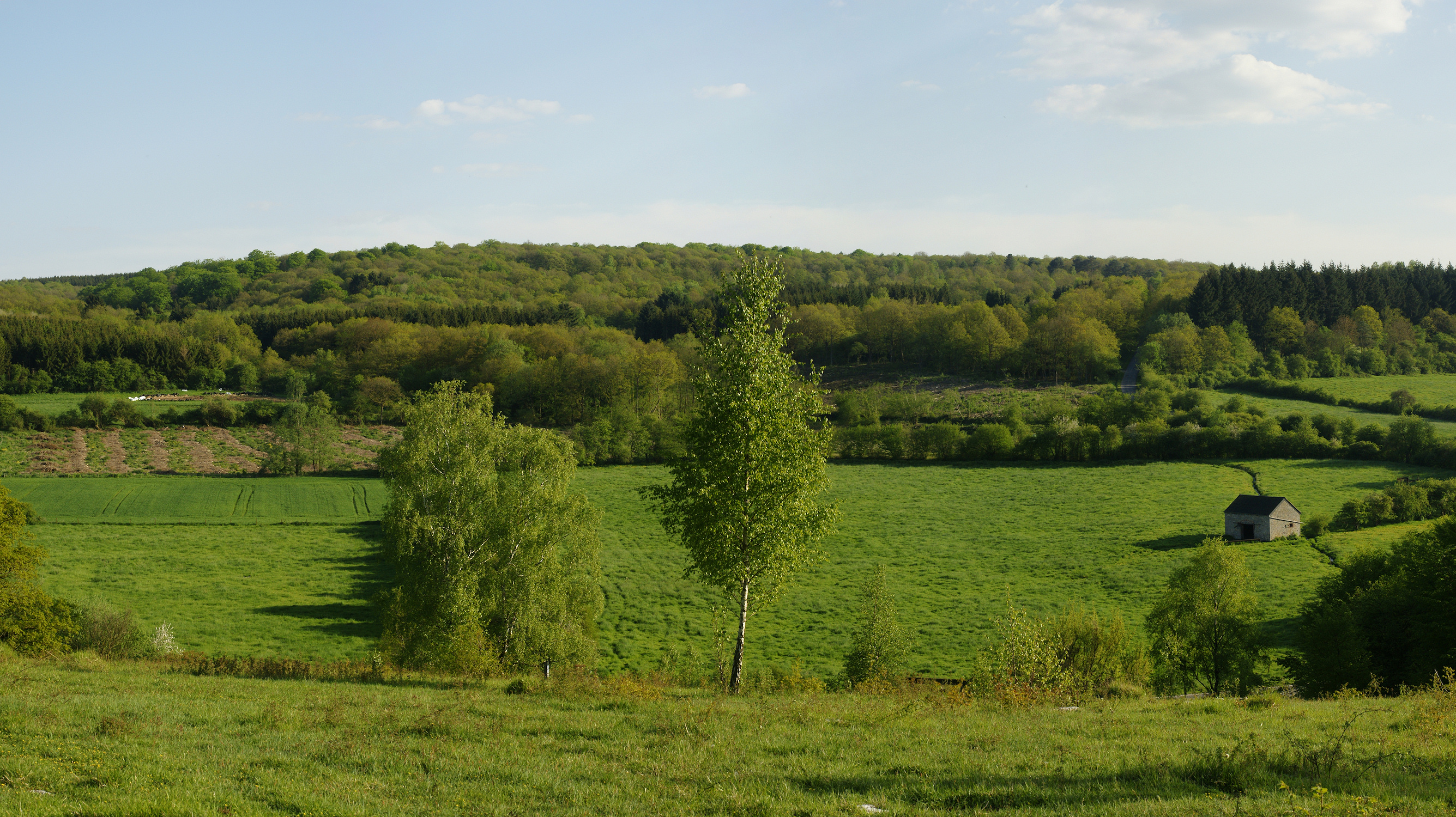 Landscape of Viroinval, close to Nismes, Belgium View in interactive viewer